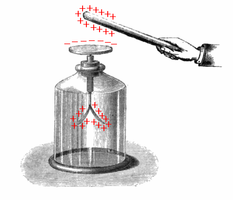 Drawing of a gold leaf electroscope, an antique scientific instrument invented in 1787 by British clergyman Abraham Bennett that detects electric charge. It consists of a pair of delicate gold leaves hanging parallel to each other from a brass post, protected by a glass jar. The brass post projects from the mouth of the jar and ends in an electrode to which charged objects can be applied. When a charge is applied to the post, the leaves, carrying the same charge, repel each other, and diverge into a "V" shape. This example shows electrostatic induction of charge in the instrument by holding a charged dielectric rod near it. The positive charge on the rod causes the mobile charges in the brass post to separate, with negative charges being attracted into the top electrode, while positive charges are repelled into the leaves, causing them to separate. Alterations to image: Added colored plusses and minuses showing areas of charge.